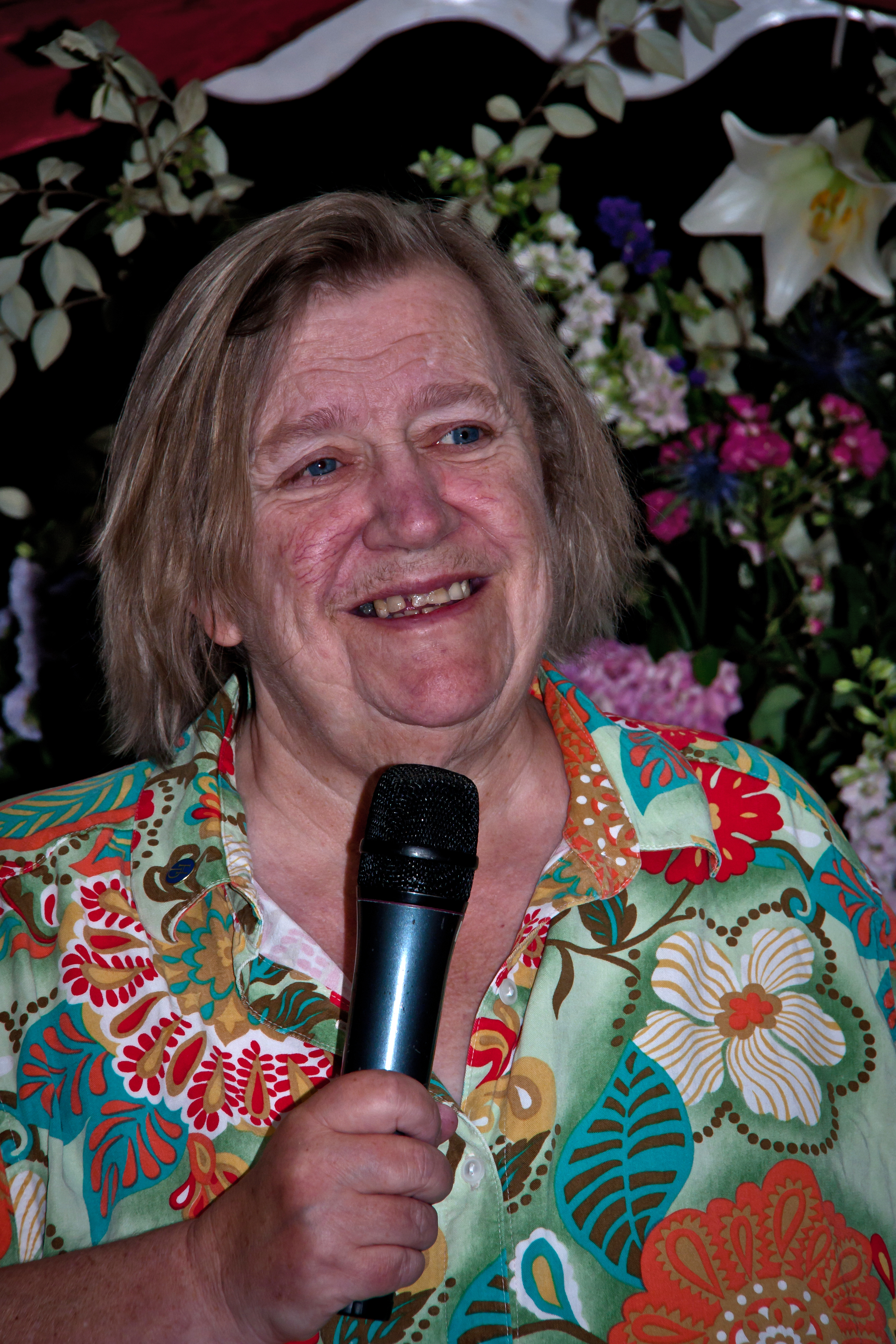 Clarissa Dickson Wright speaking at a Countryside Alliance fundraising dinner on Exmoor